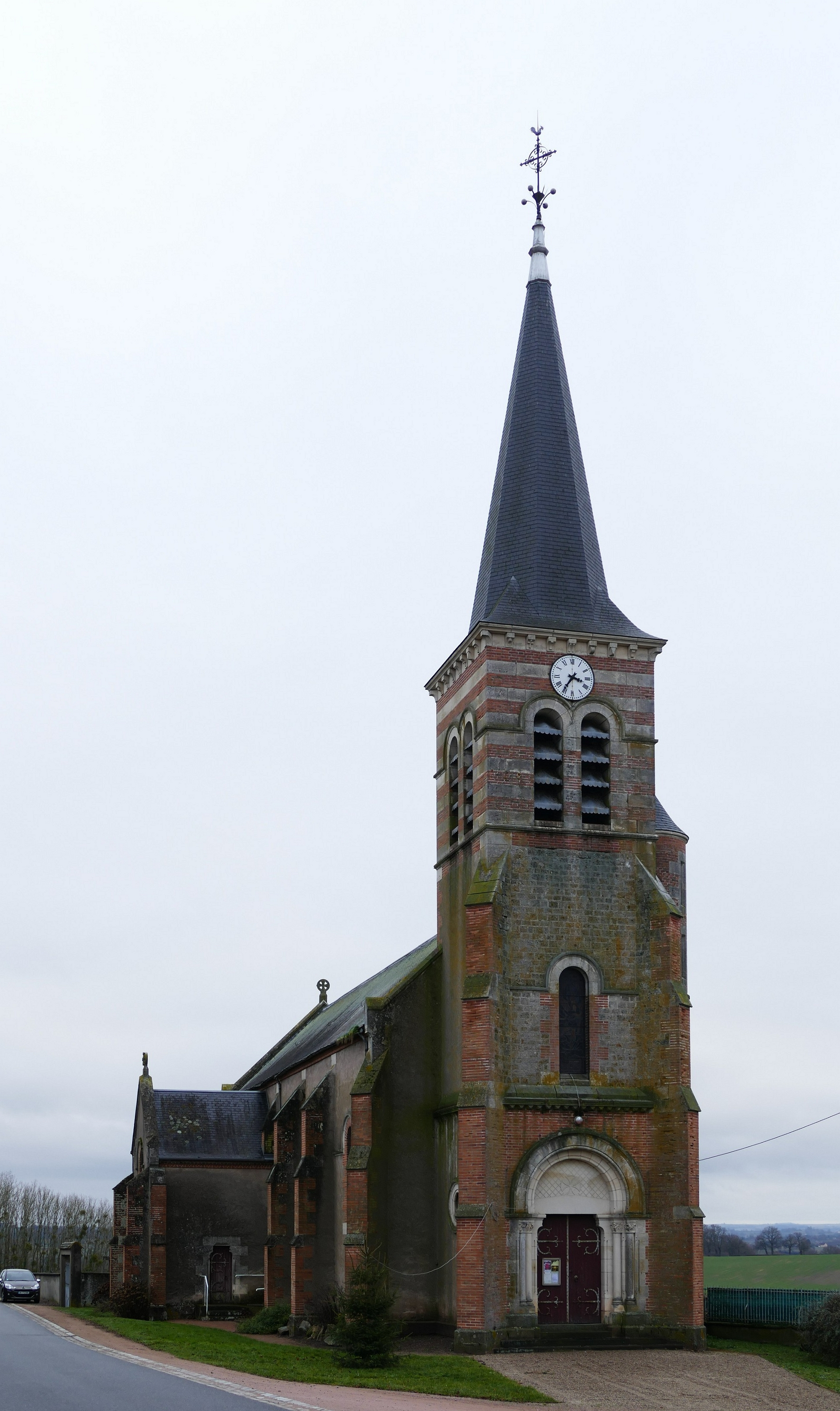 Our Lady's church in Thionne (Allier, Auvergne, France).